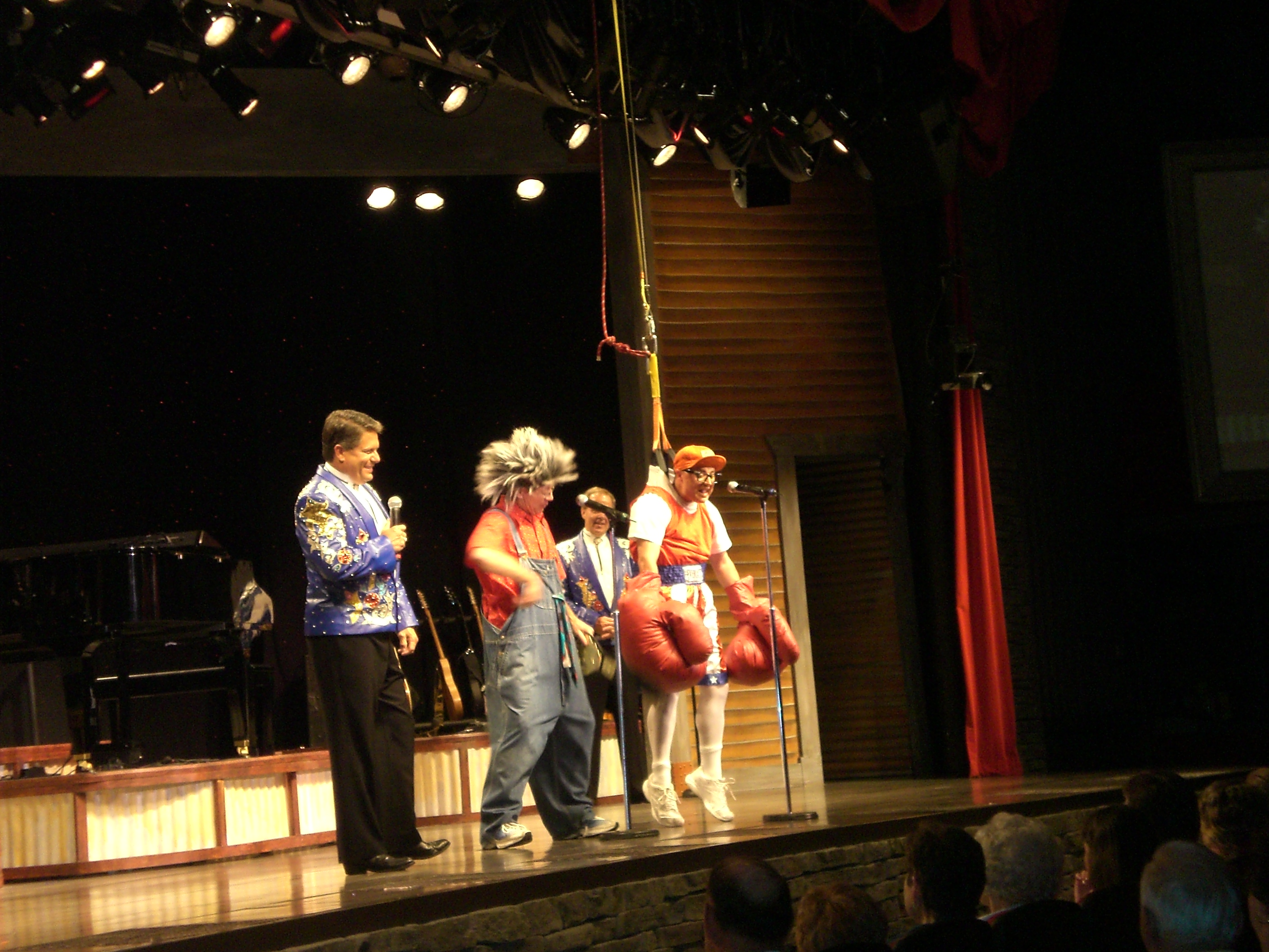 Branson famous, Herkimer and Cecil are performing at the Presley Country Jublee